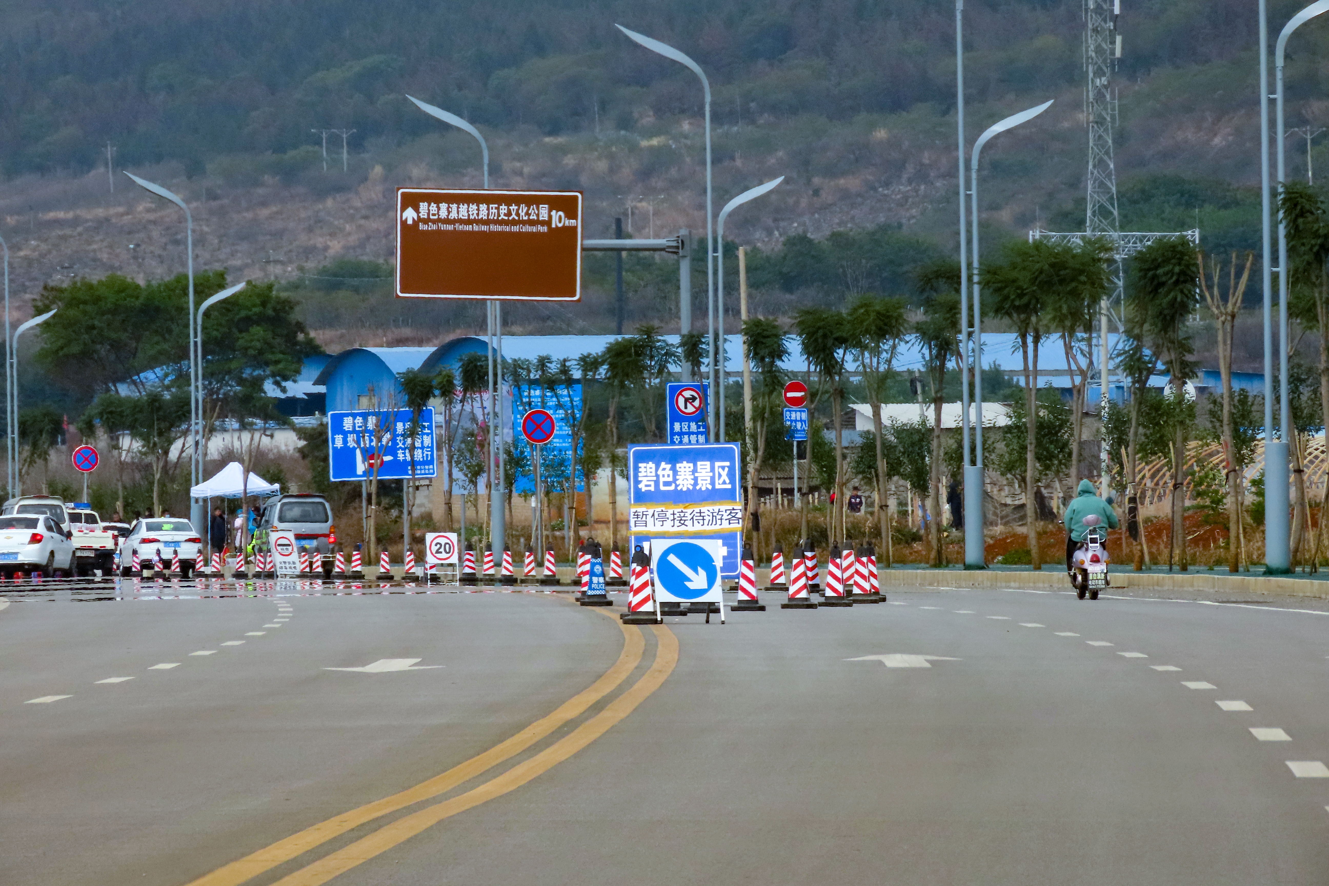 All the scenic areas in Yunnan are temporarily closed due to the outbreak of novel coronavirus.